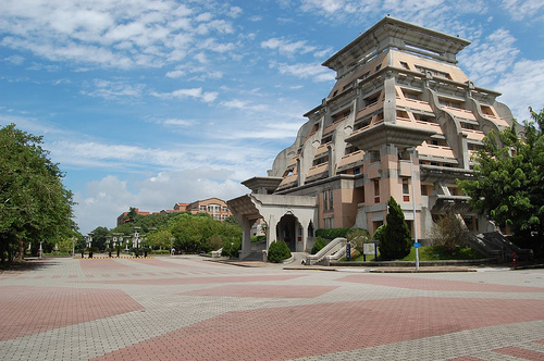 Taiwan National Chung Cheng University Administration Building